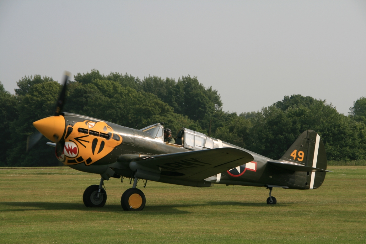 Author: SmiertSpionem. Plane P-40E at Cosford Air Show 2007. Camera: Canon EOS 400. Author: SmiertSpionem. Plane P-40E at Cosford Air Show 2007. Camera: Canon EOS 400.